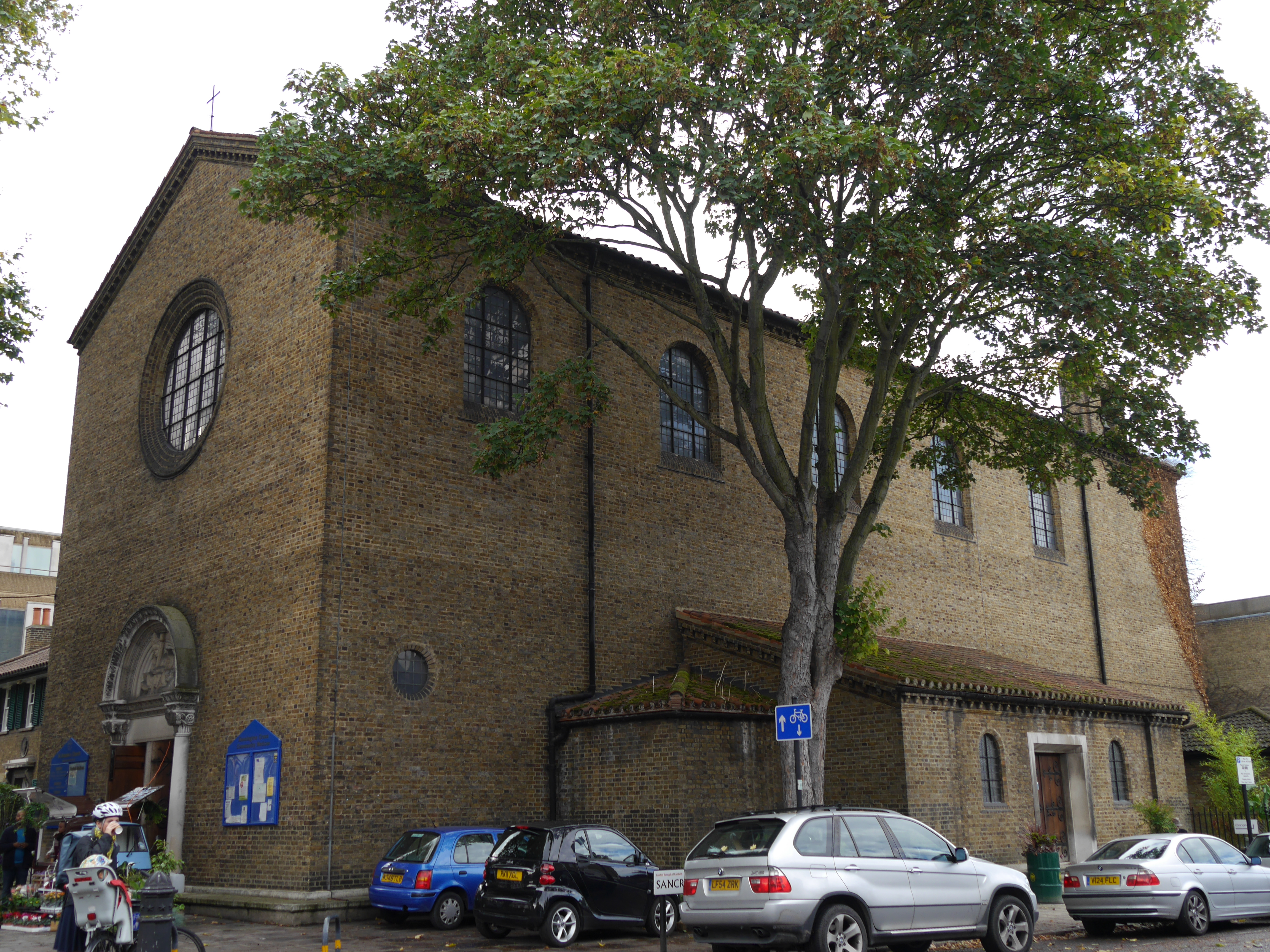 St Anselm's Church, Kennington, October 2014